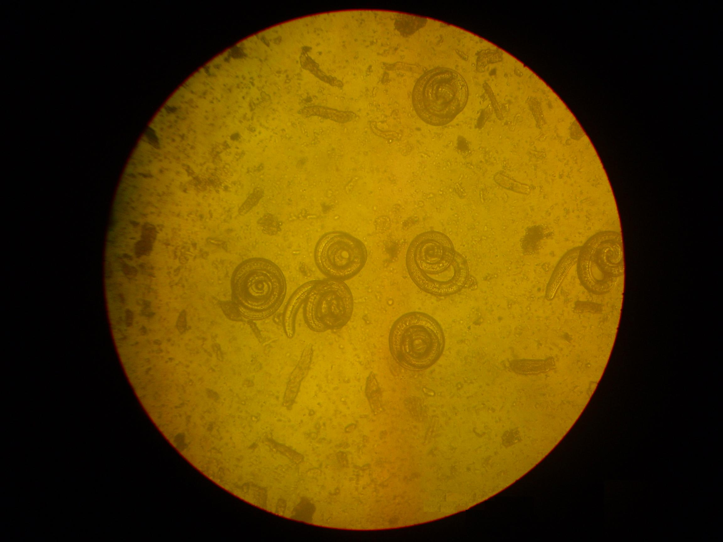 Trichinella spiralis